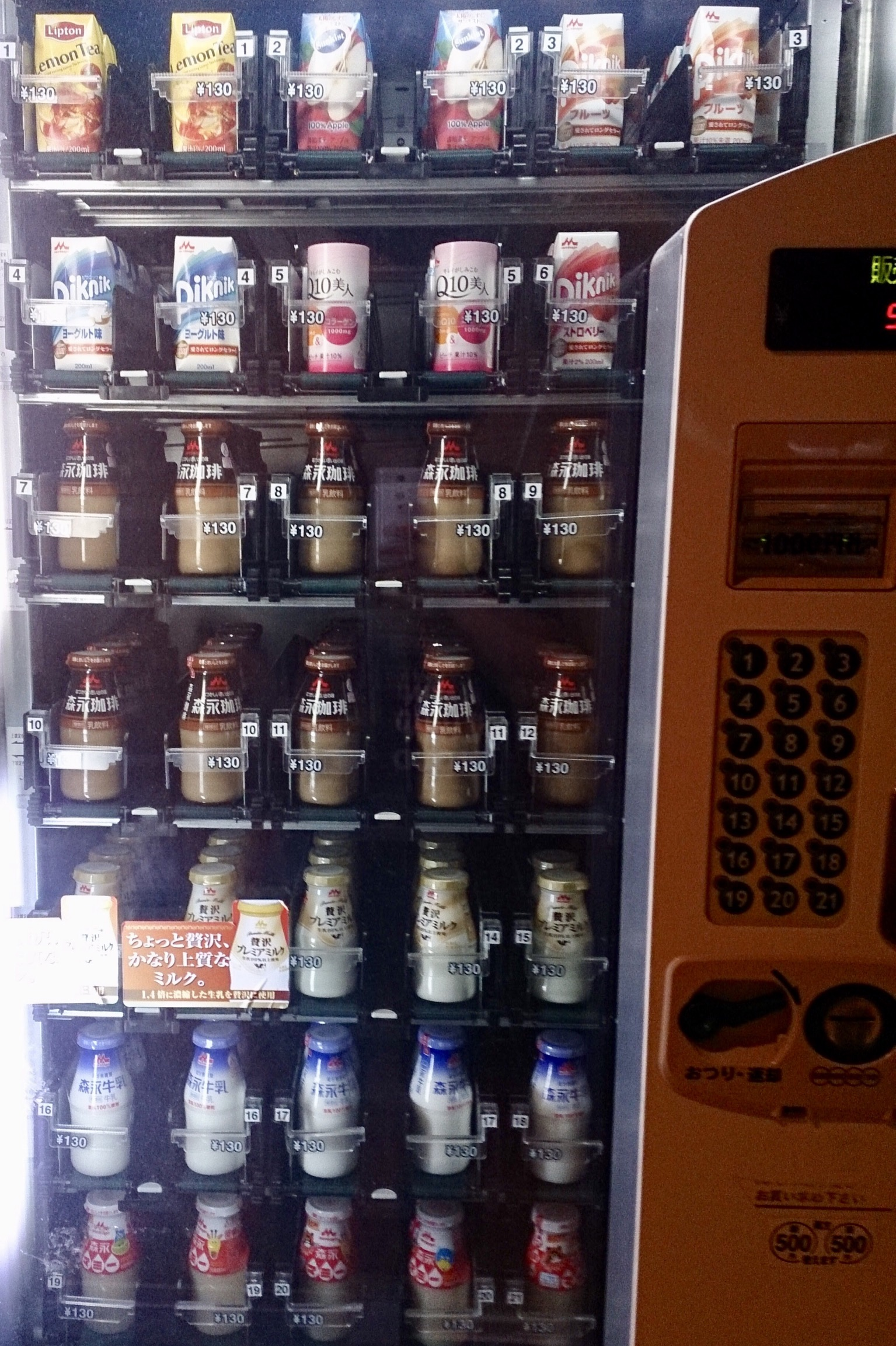 Morinaga milk's Vending machine